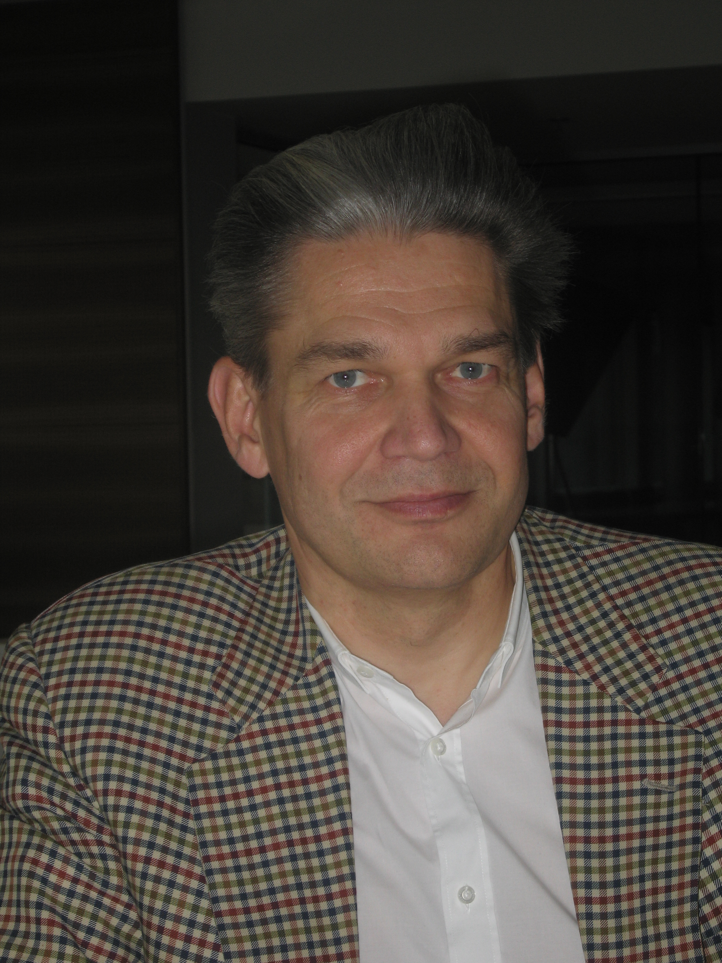 Dr Timo Joensuu, a Finnish Oncologist and innovator